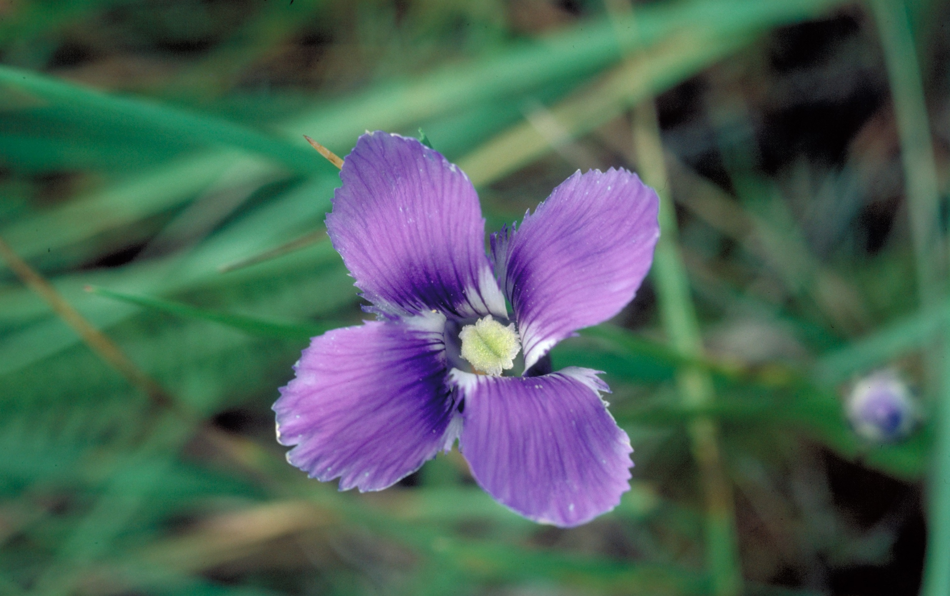 Gentianopsis thermalis